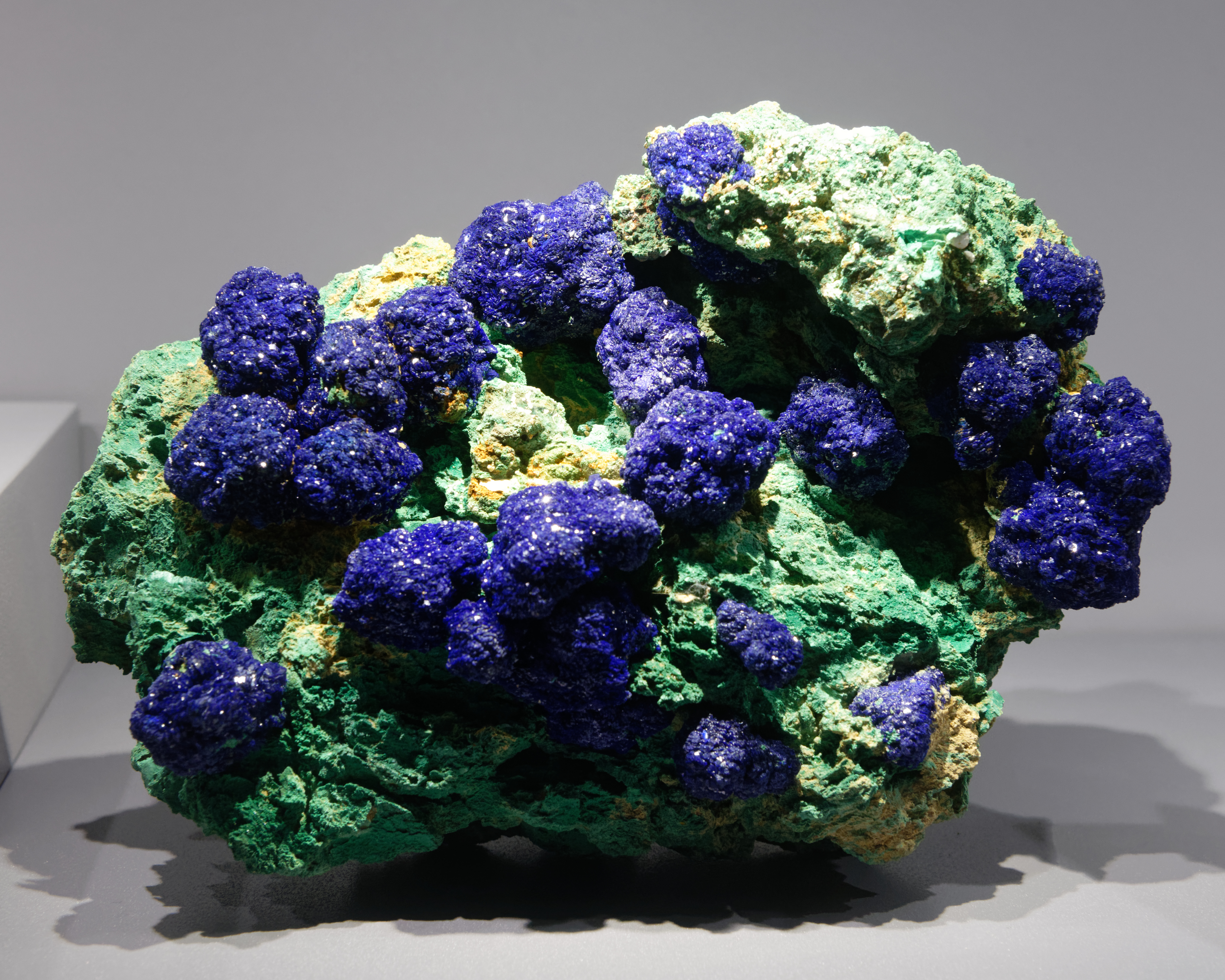 Azurite and malachite from San Juan County, Utah, United States. Gallery of Mineralogy and Geology of the French National Museum of Natural History in Paris.